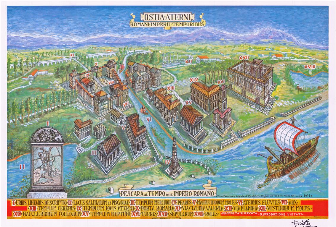 Aternum